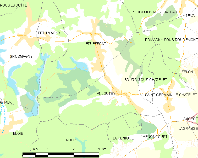 Map of French municipality Anjoutey